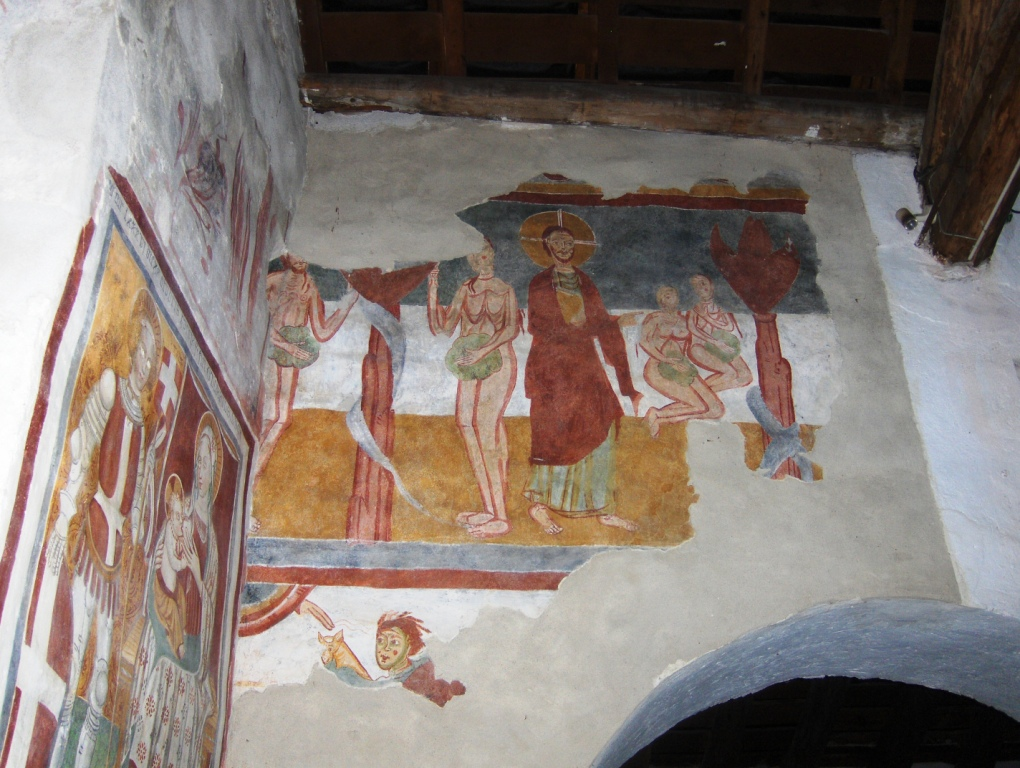 fresco in the right side